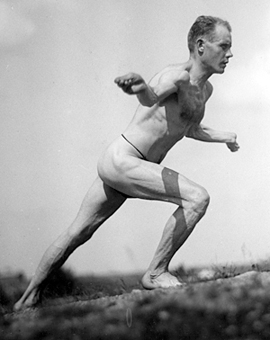 Paavo Nurmi in a calisthenic pose